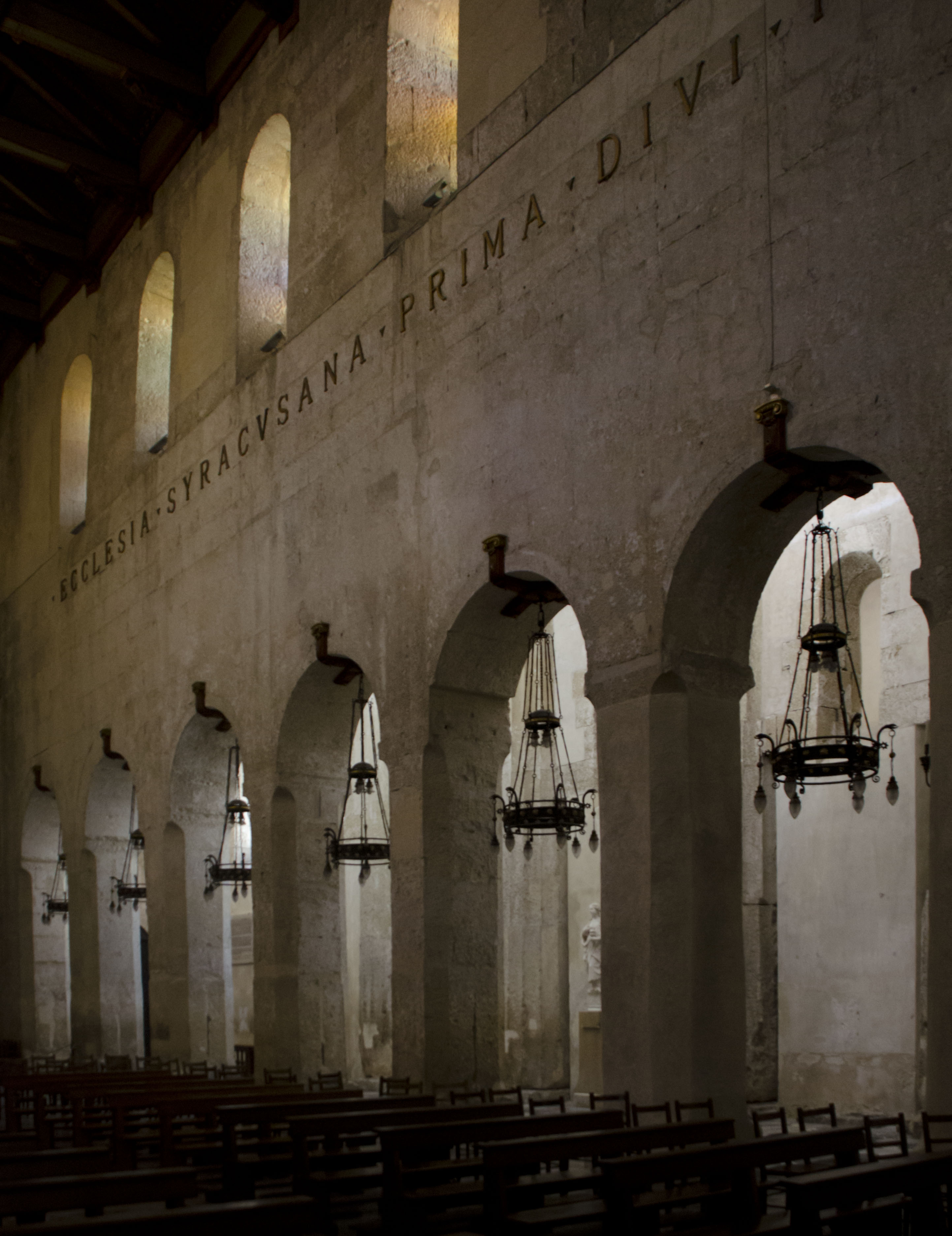 Siracusa cathedral, interior, Sicily